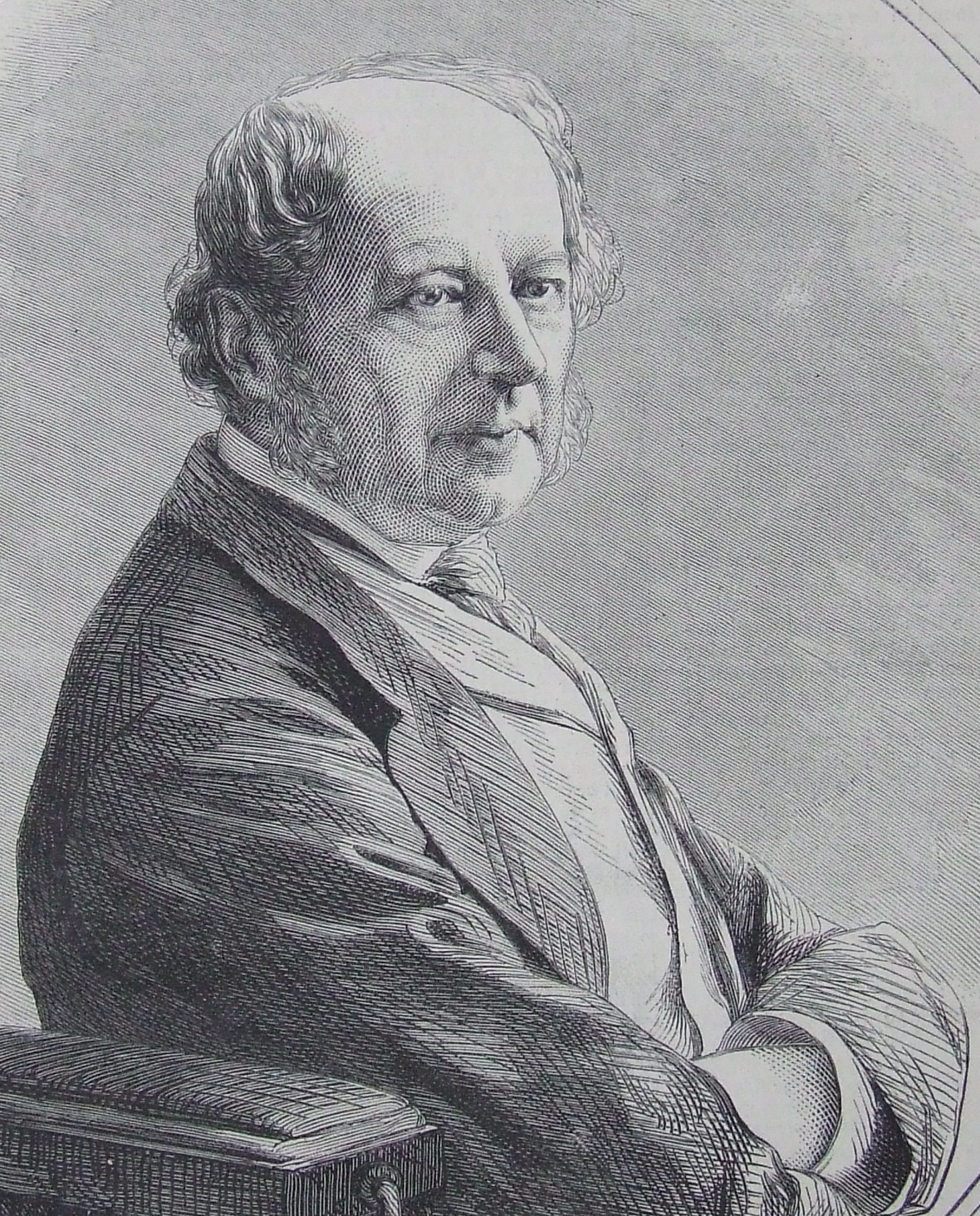 From The Graphic in 1873